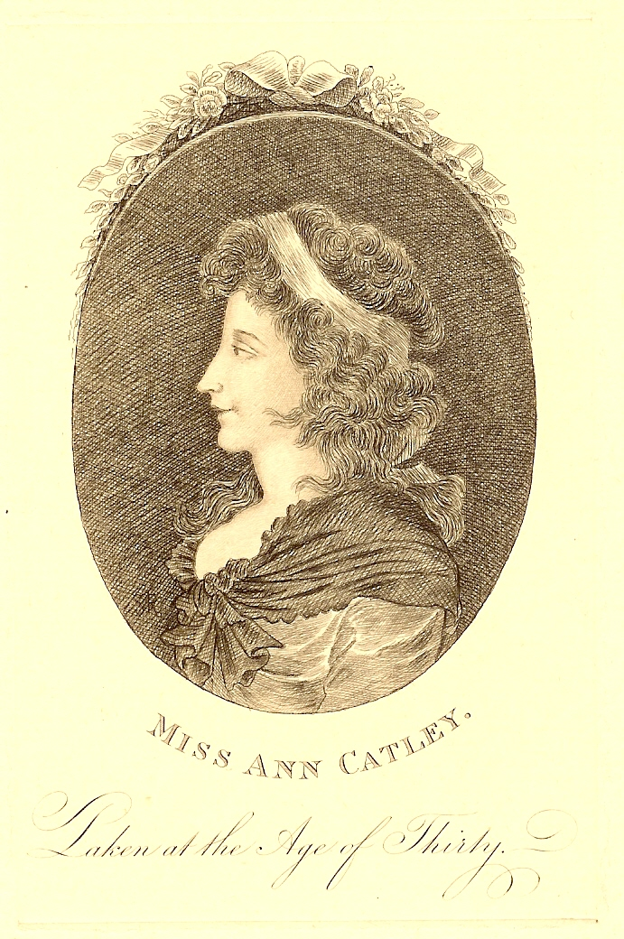 Portrait of Ann Catley (1745-1789) at the age of thirty